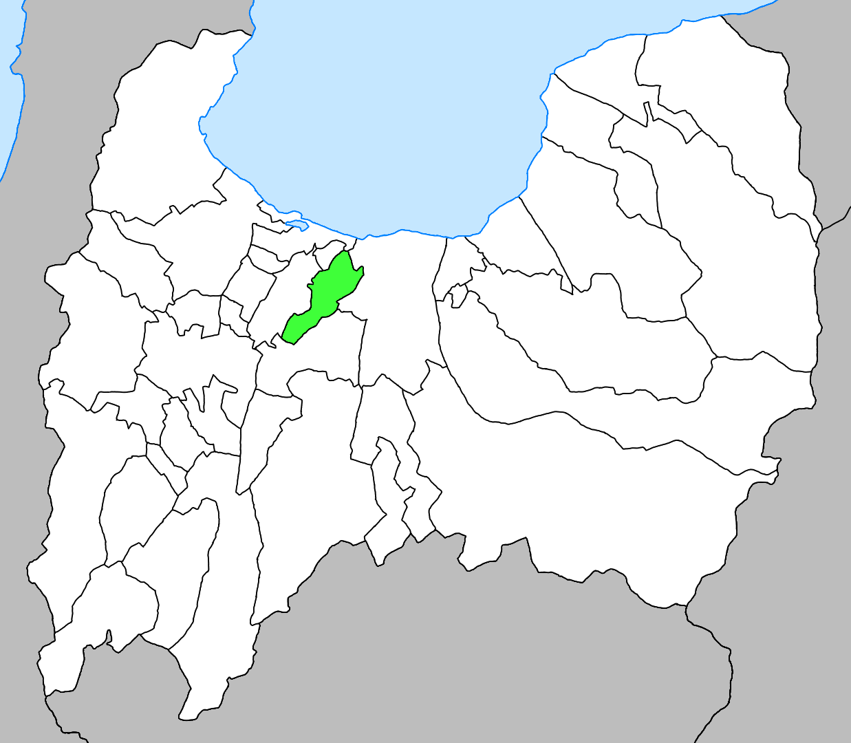 Map of Kureha-machi, Toyama Prefecture